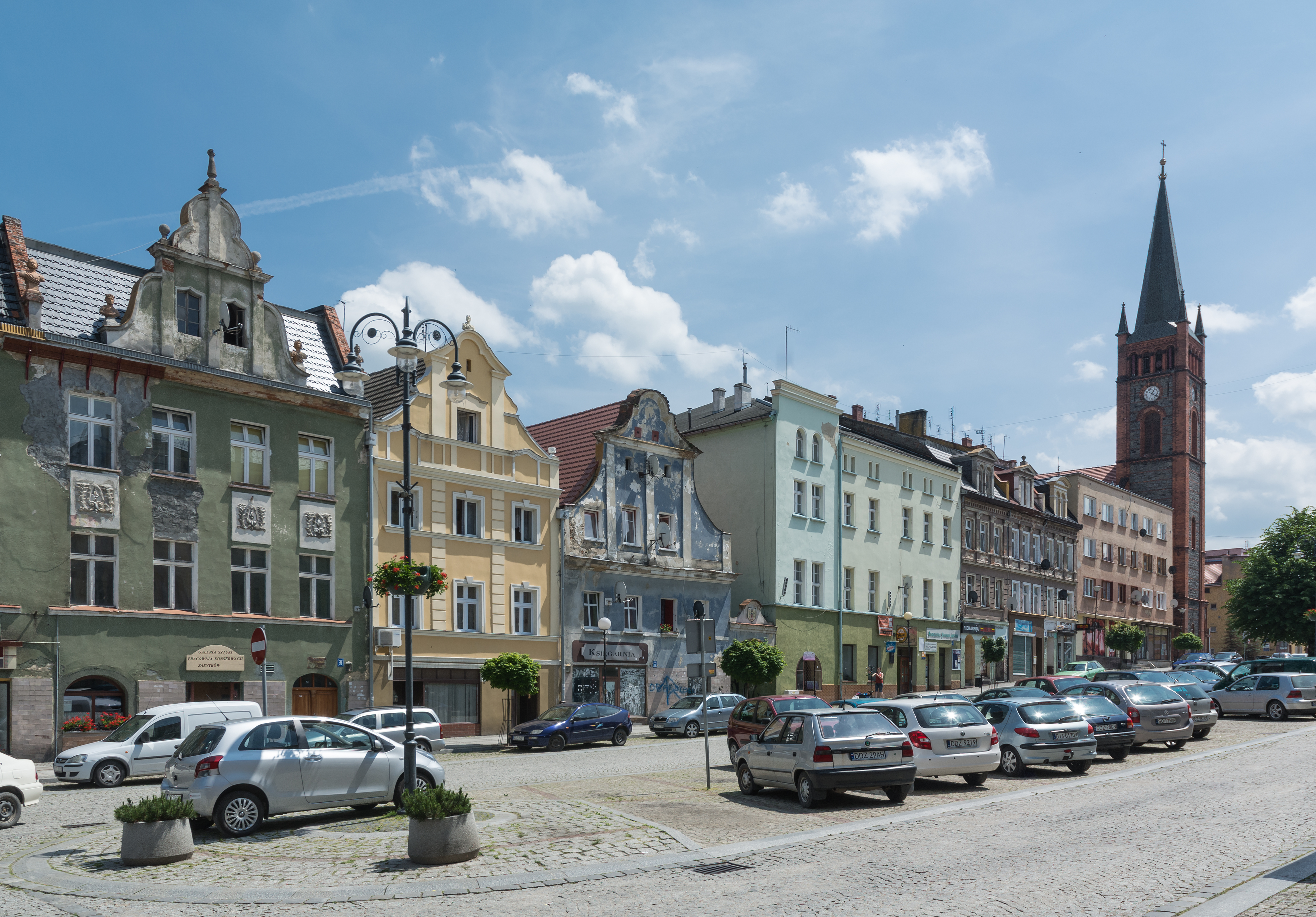 Market Square in Niemcza